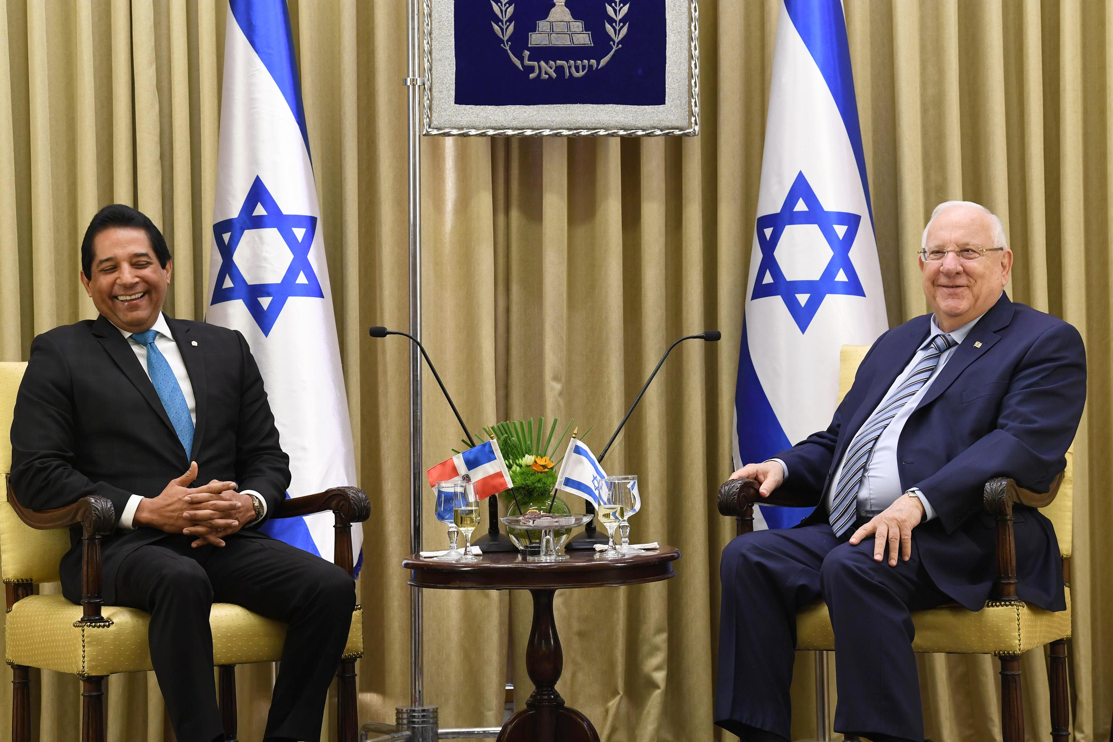 President of Israel, Reuven Rivlin, receives the credentials of new Ambassadors from Ghana, South Korea, Argentina, the Dominican Republic and Malawi upon their entry as ambassadors of their respective countries in Israel. Monday, March 12, 2018. Photo Credit: Mark Neyman / GPO Depicted people: Reuven Rivlin and John Newton Guiliani Valenzuela